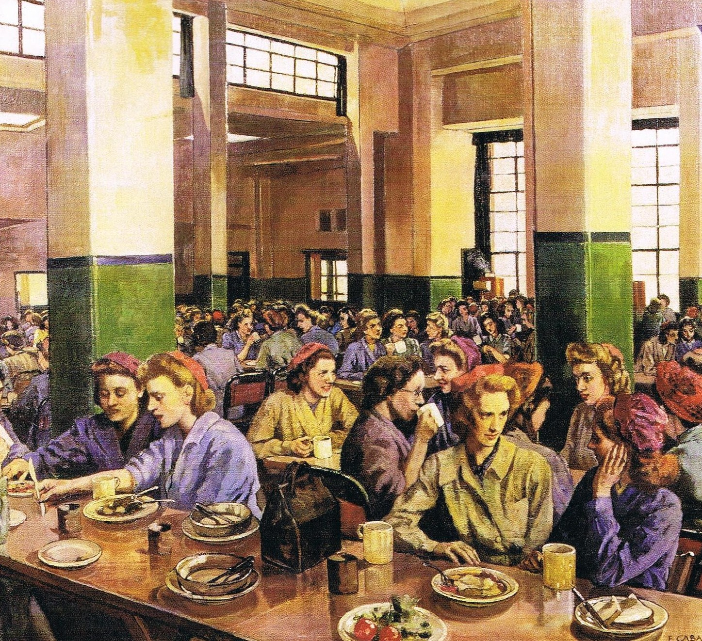 Scan of book,S W Thomson, The Life and Works of Ethel Gabain,front cover